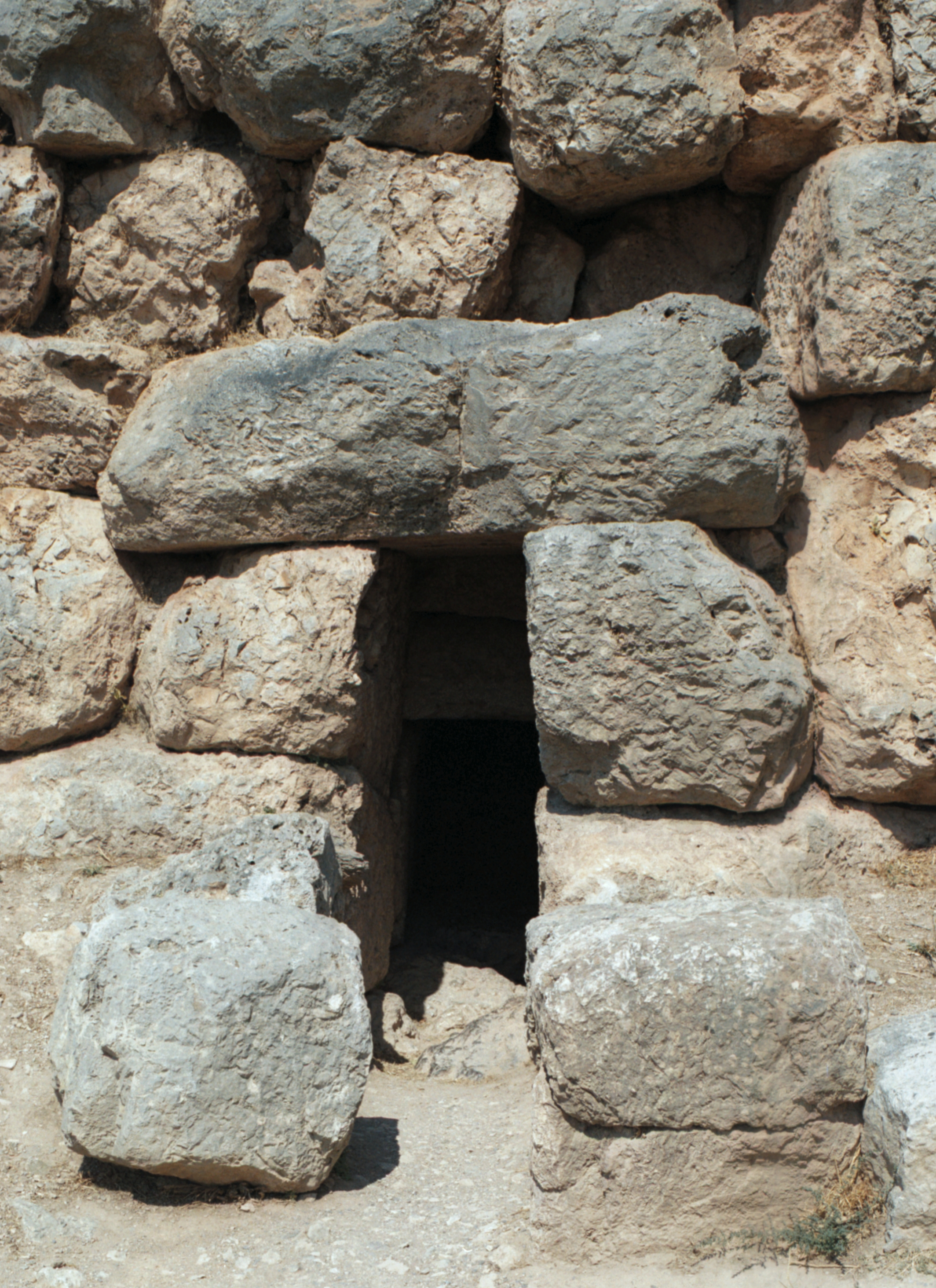 Entrance to the underground spaces in the foundations of the Temple of Apollo at Delphi.